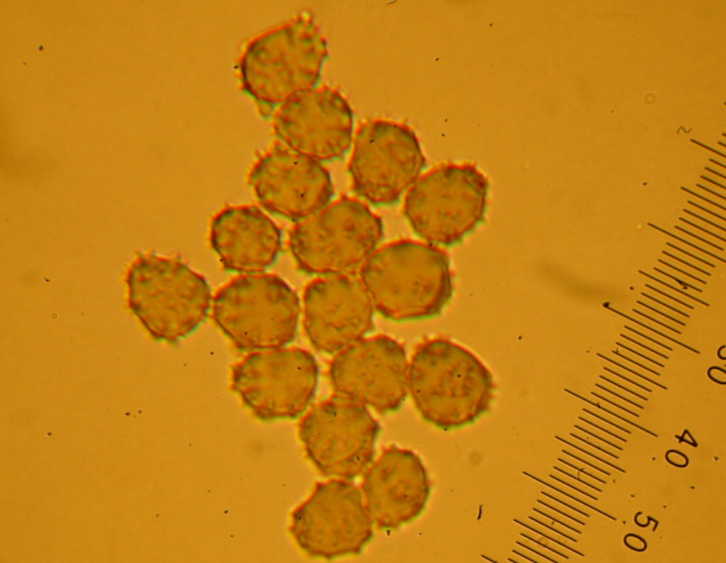 Spores of the thelephoroid fungus Thelephora palmata (Scop.) Fr. From specimens found in Annadel State Park, Sonoma Co., Santa Rosa, California, USA.